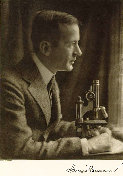 Louis Virgil Hamman, M.D. (December 20, 1877 – April 28, 1946)